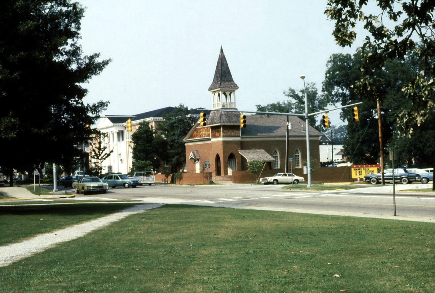 Auburn University Chapel. Built in 1851. Used as a house of worship for the Presbyterian and Episcopal communities, a Civil War hospital, a civic center, a YMCA and YWCA headquarters, and a USO. In 1887, when the main building burned at Alabama Polytechnic Institute, the college used the Chapel for classrooms. Taken with my Pentax K1000 camera in 1982 and scanned with a CanoScan 8600F on 7/5/2007.